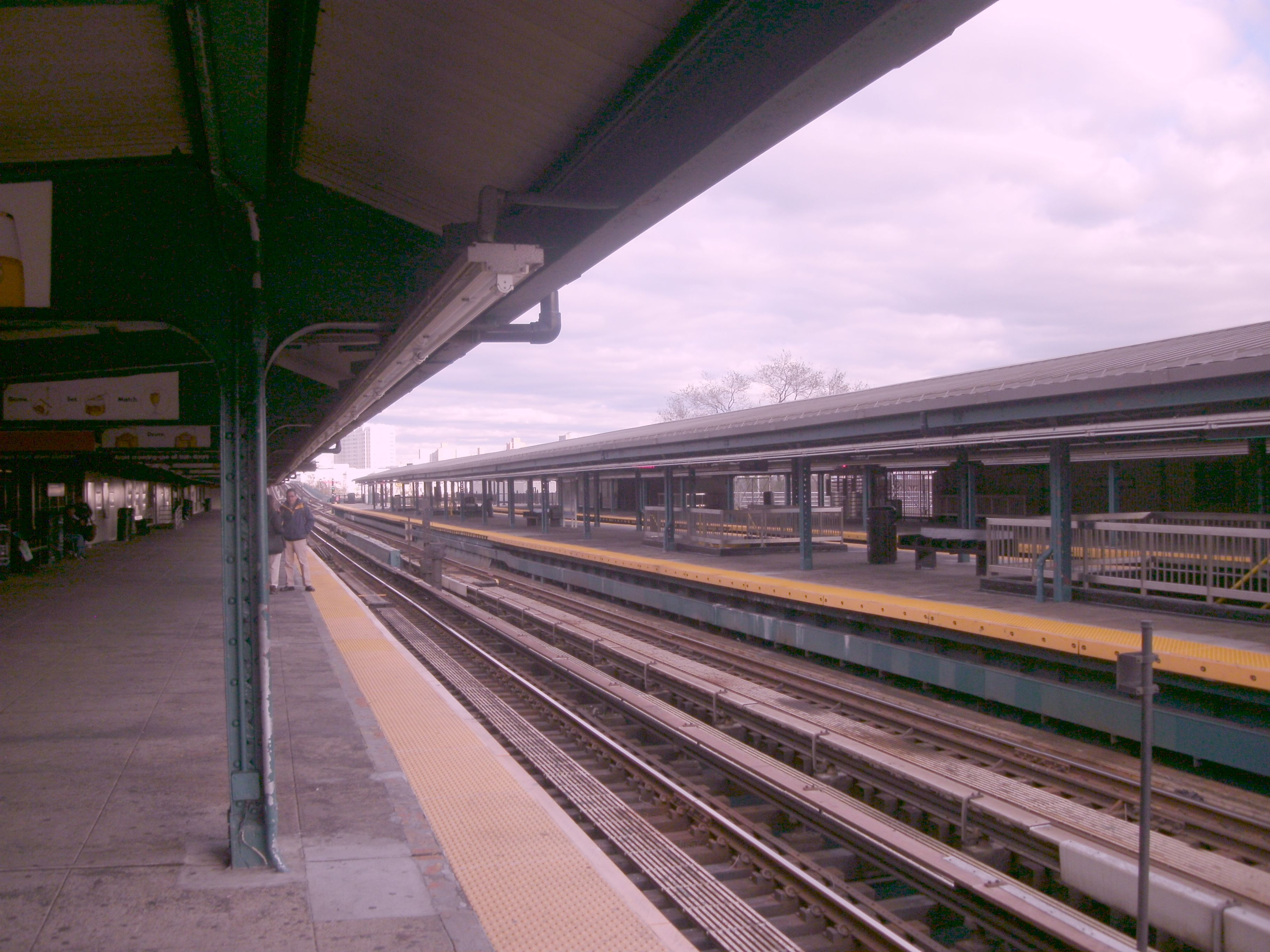 GE DIGITAL CAMERA